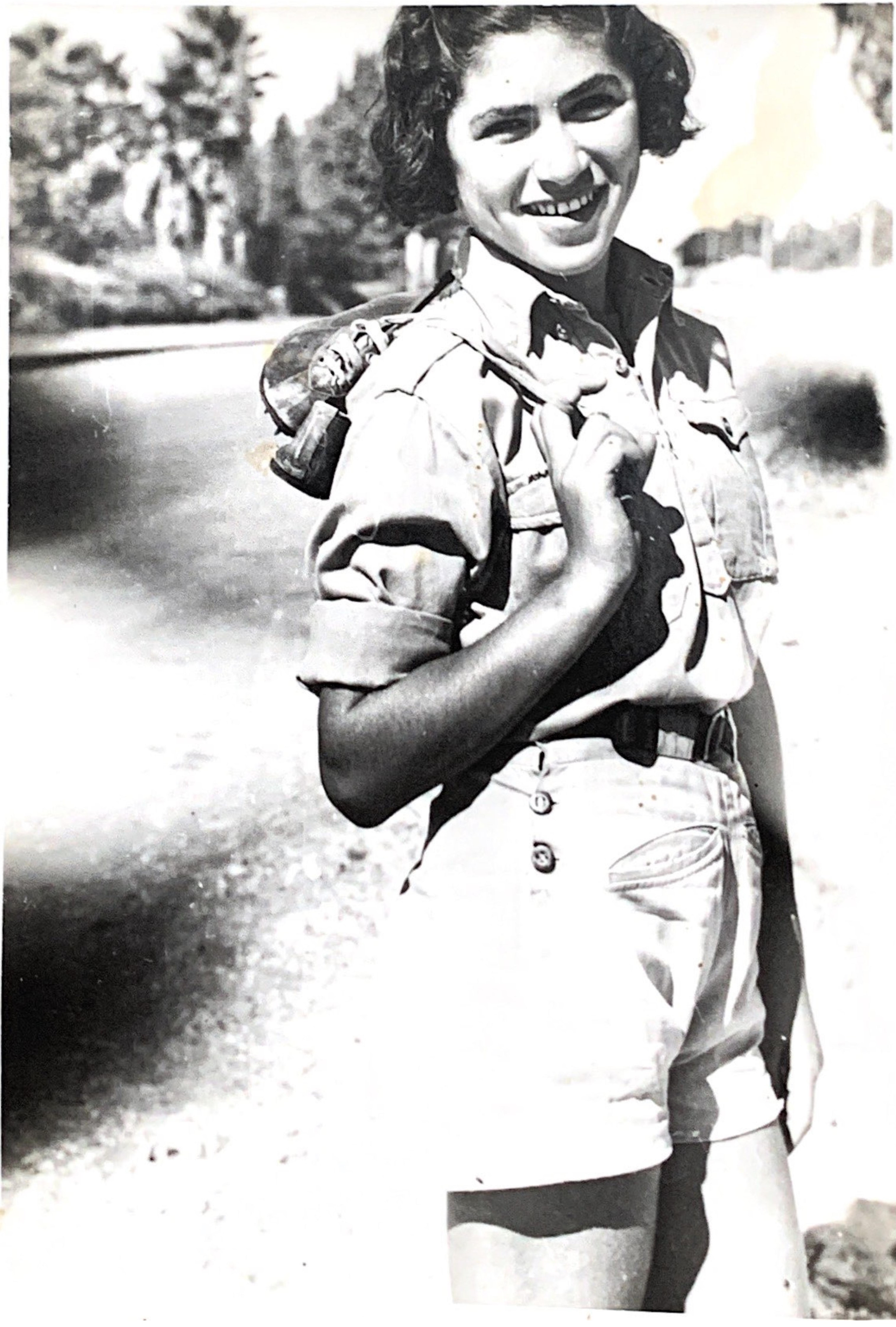 Age 14.5 with spiked shoes over her sholder, 1937